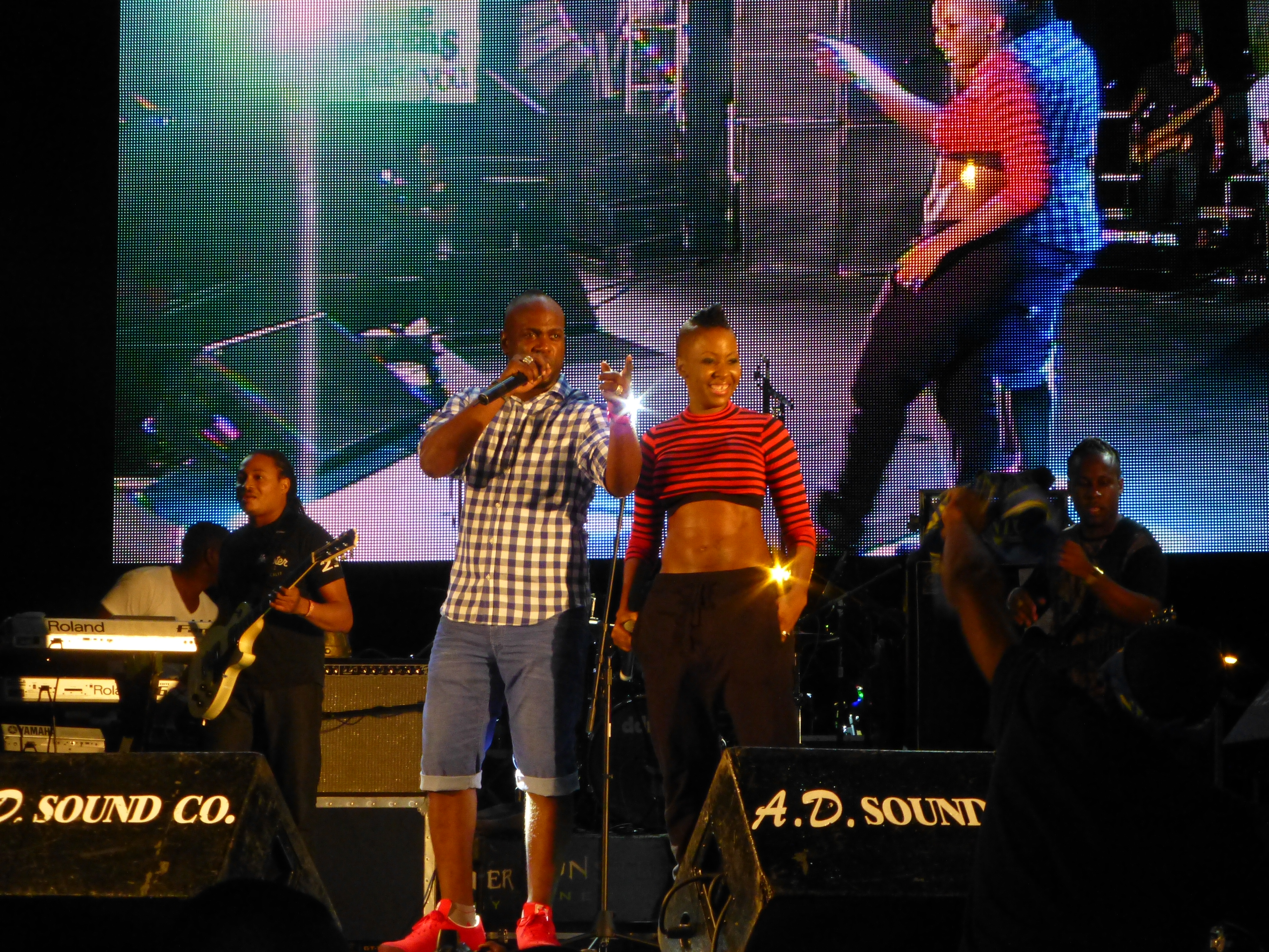 Bunji Garlin & Fay-Ann Lyons, Fire Fete, Queens Park Savannah, Port of Spain, Trinidad, Jan 26, 2014.